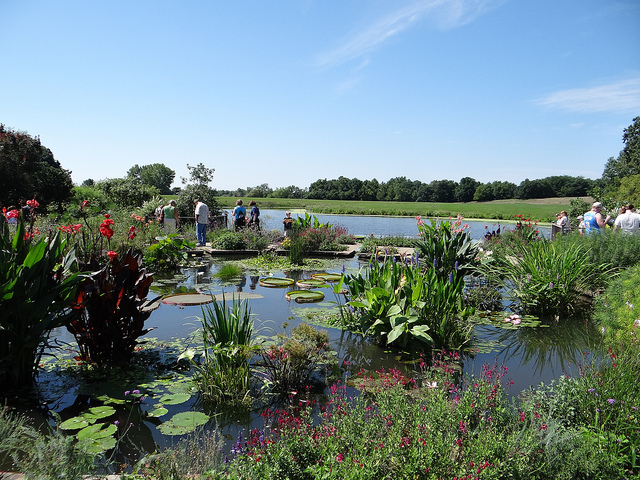 Island Garden with visitors on a sunny day at Powell Gardens, Kansas City's botanical garden. August 2013.